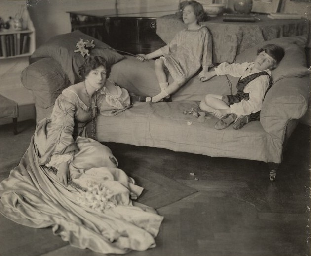 Helen Maud Gamble (née Isherwood); Anthea Rosemary Carew (née Gamble); Patrick Henry Noel Gamble by Cavendish Morton platinum print on photographer's paper mount, 1913 9 in. x 10 7/8 in. (228 mm x 276 mm) image size Given by the photographer's son, Cavendish Morton, 1994 Photographs Collection NPG x128814